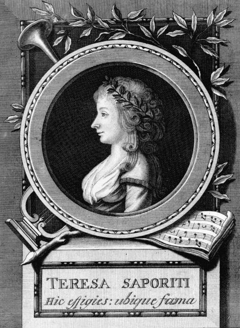 Engraved portrait of Teresa Saporiti